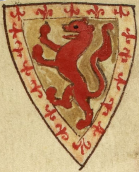 Coat of arms of Alexander II, King of Scots. This coat of arms appears on folio 146v of Royal MS 14 C VII. Note, however, that the coat of arms is inverted in the manuscript, and that I have rotated it 180 degrees so that the shield appears right side up. The reason the shield is inverted in the manuscript is because it marks the king's death.